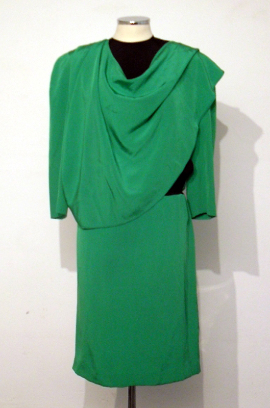 1980 dress by Michalis Polatof, Athens